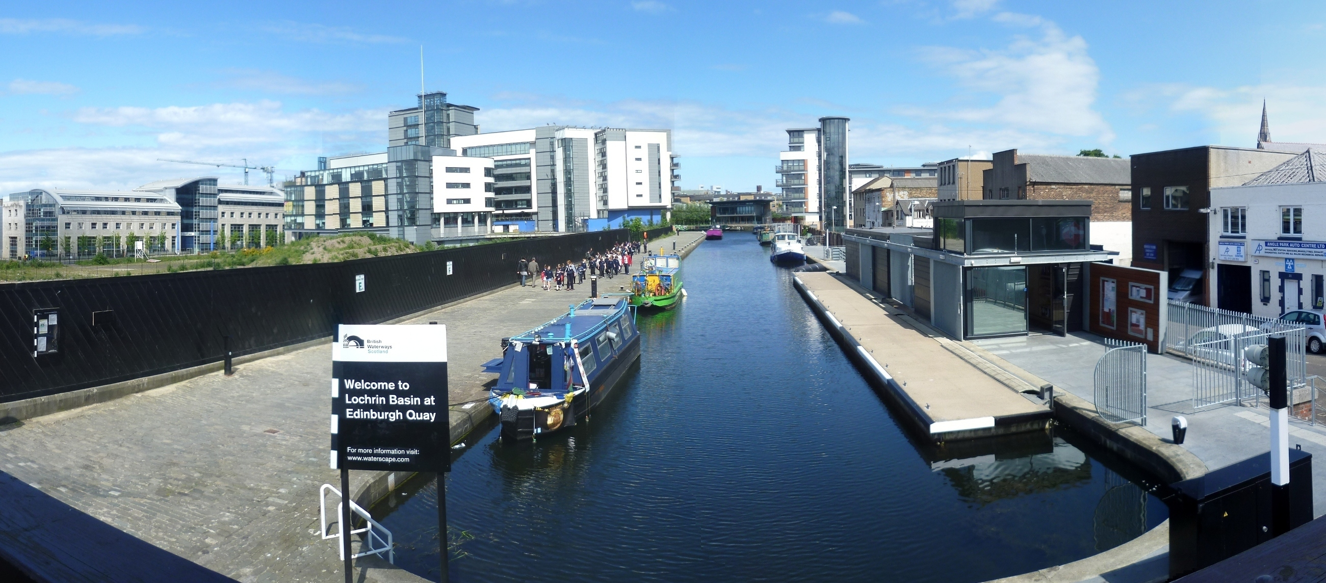 Edinburgh Quay from the Leamington Lift Bridge (composite image)